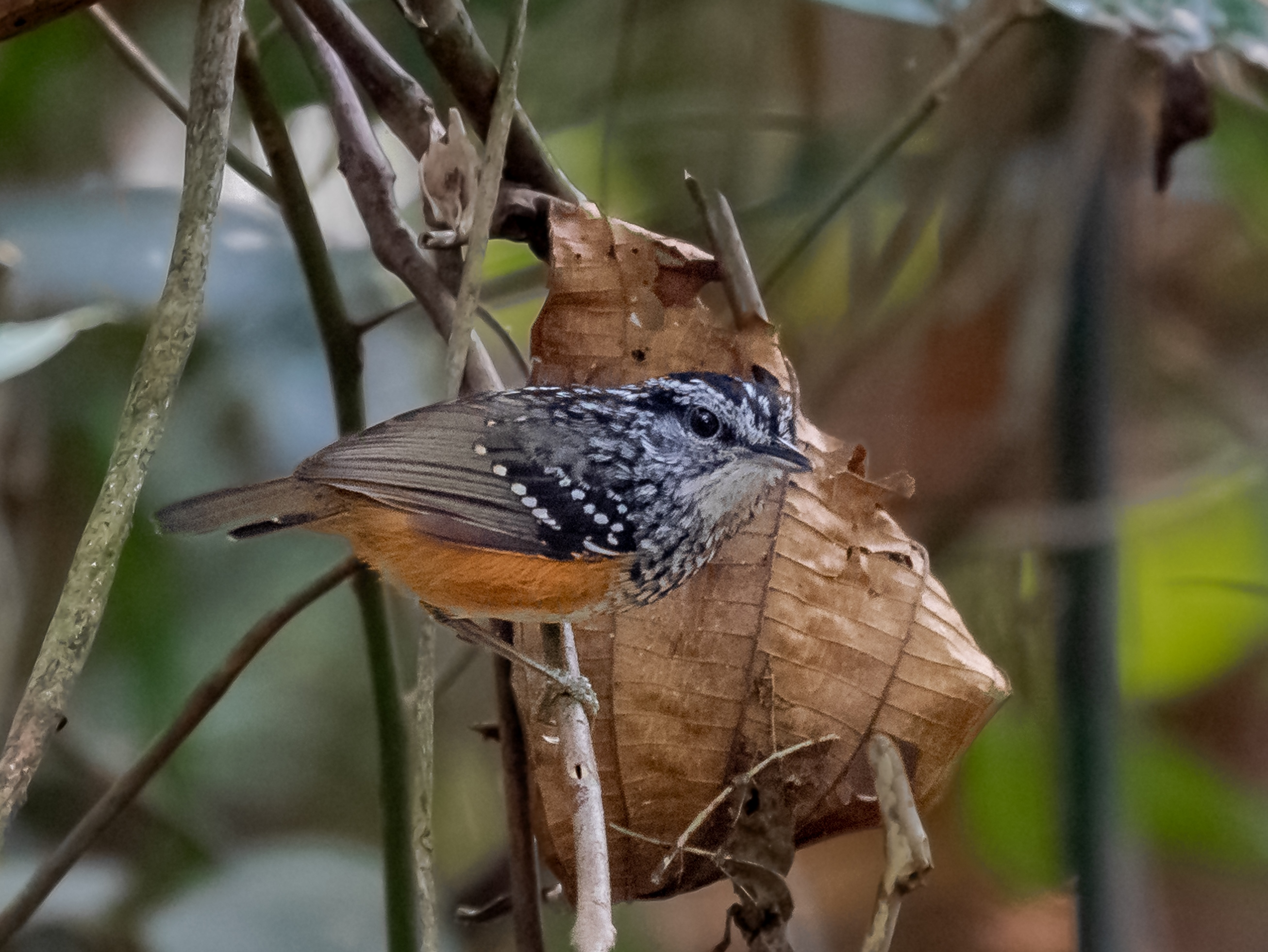 Peruvian Warbling-Antbird (male); Cruzeiro do Sul, Acre, Brazil